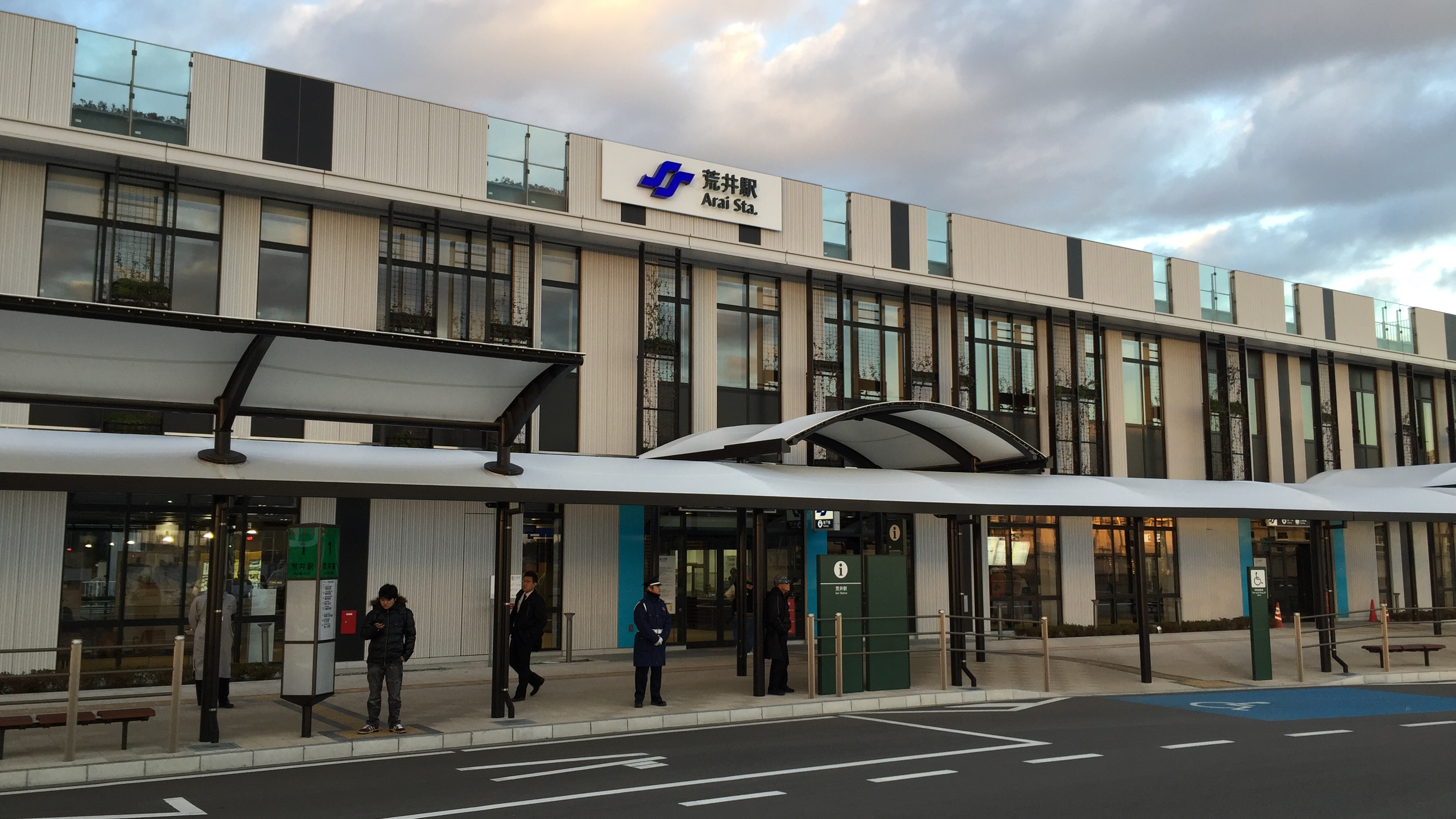 The station forecourt on the south side of Arai Station on the Sendai Subway Tozai Line